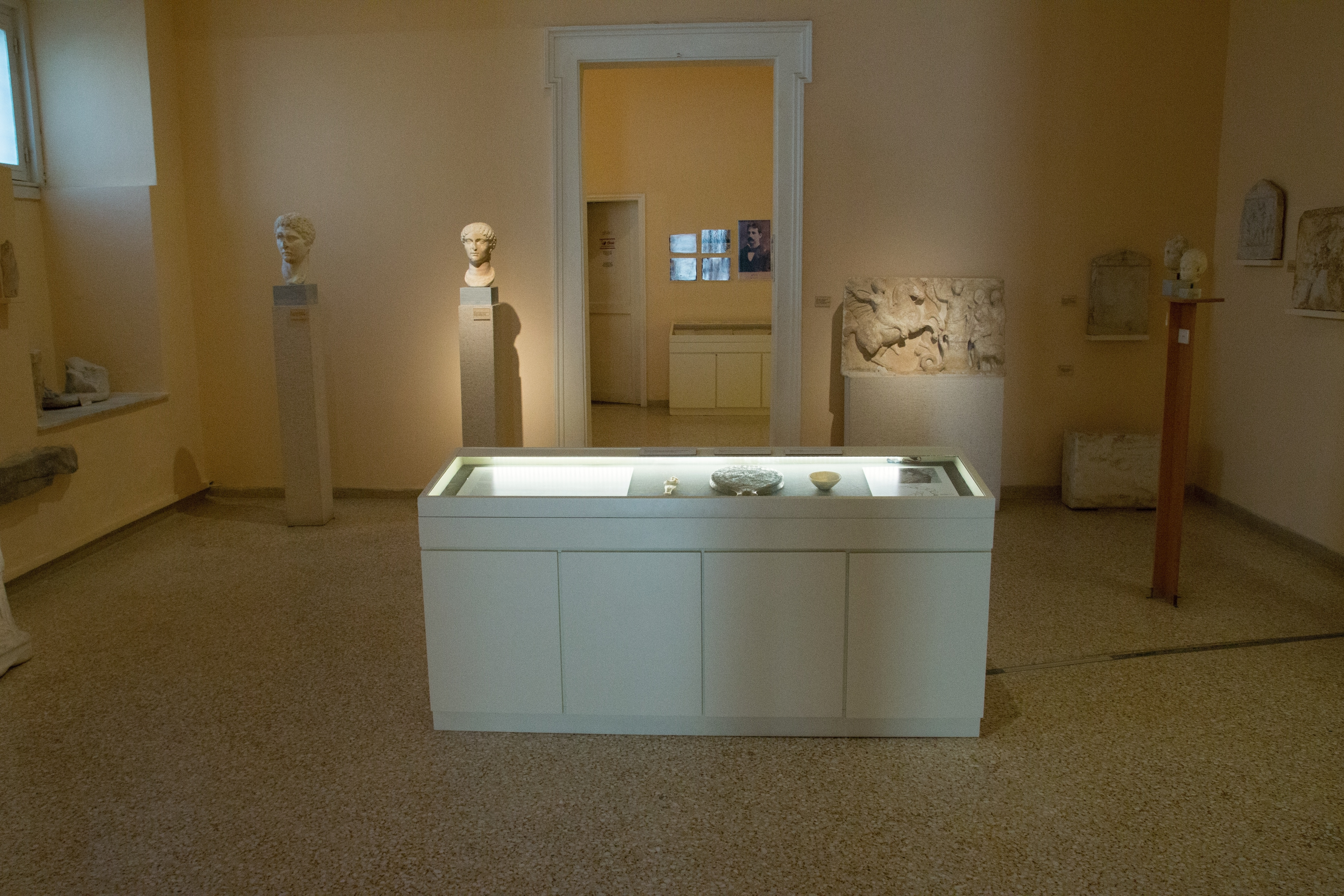 Archaeological Museum of Syros, part of Room 3.